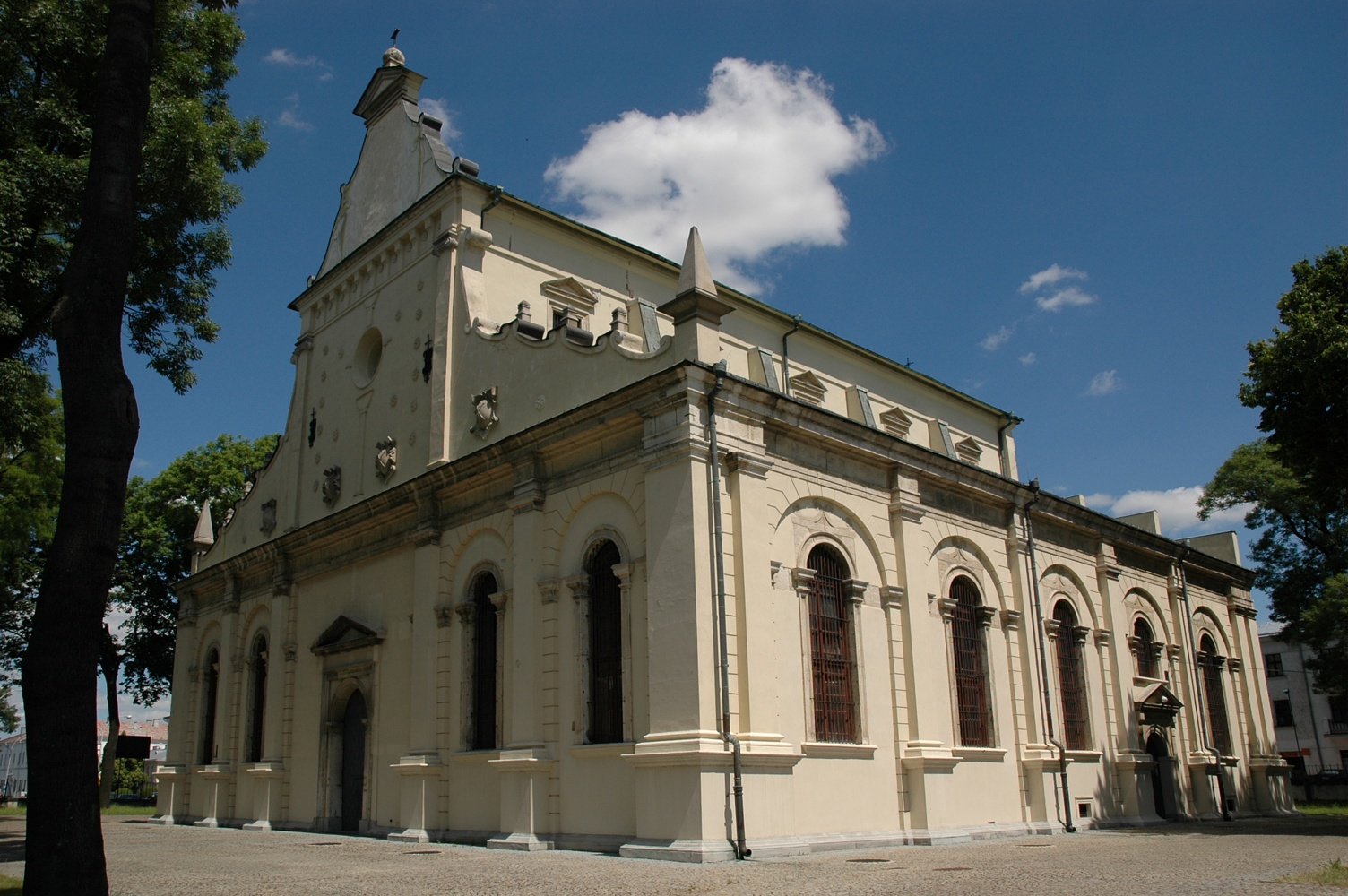 Cathedral in Zamość